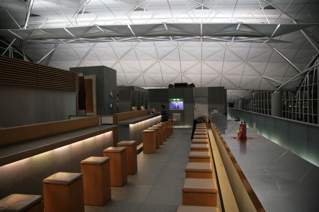 CX HKG The Wing lounge.